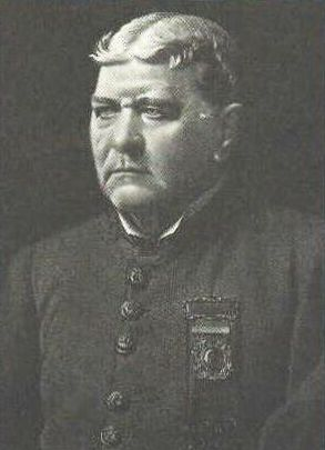 Edmund Winchester Rucker, former officer in the Confederate States Army and industrial magnate in Birmingham, Alabama